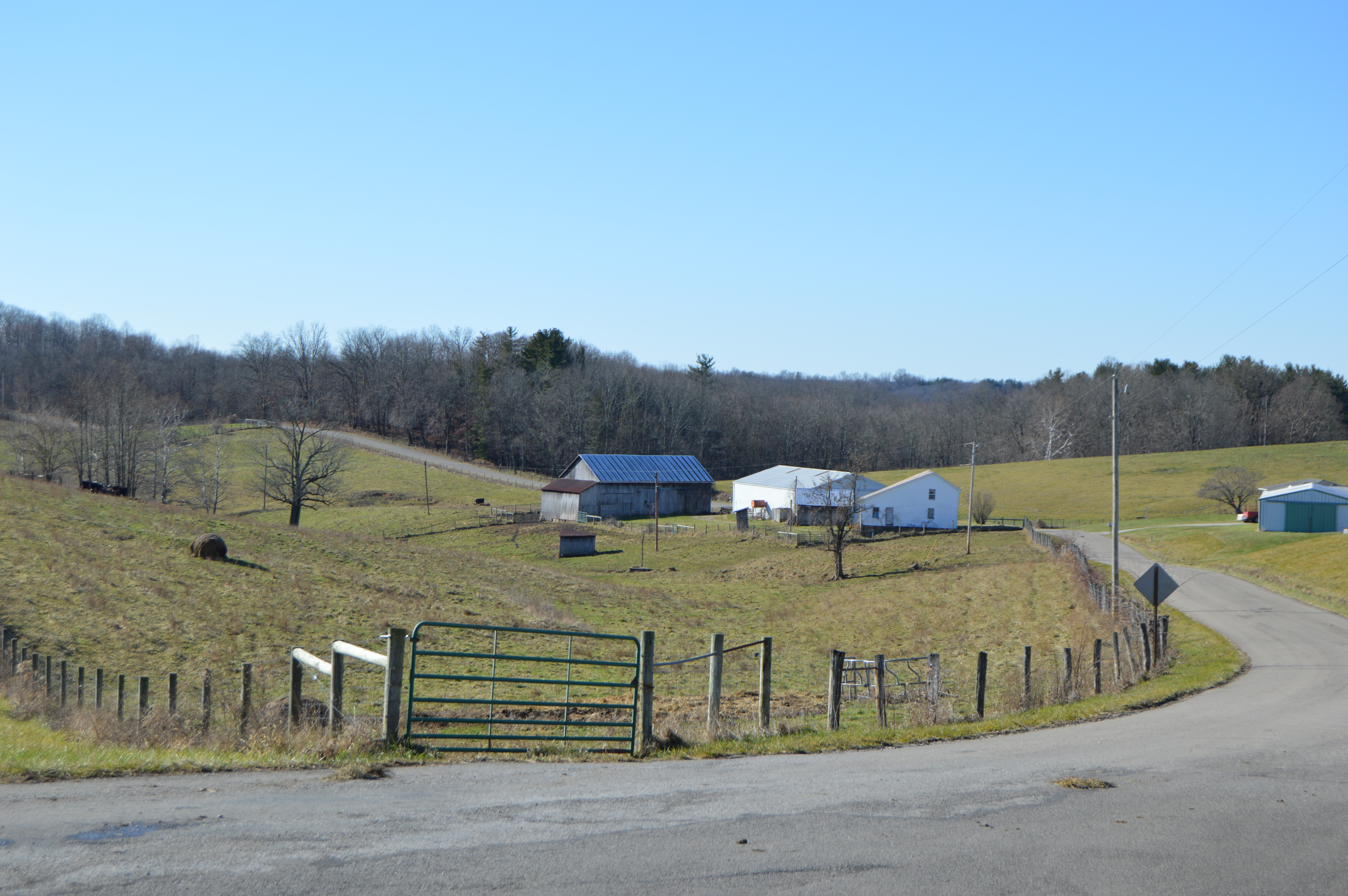 Farms on Elliott Road, seen from the Best Road intersection, in northwestern Penn Township, Morgan County, Ohio, United States.